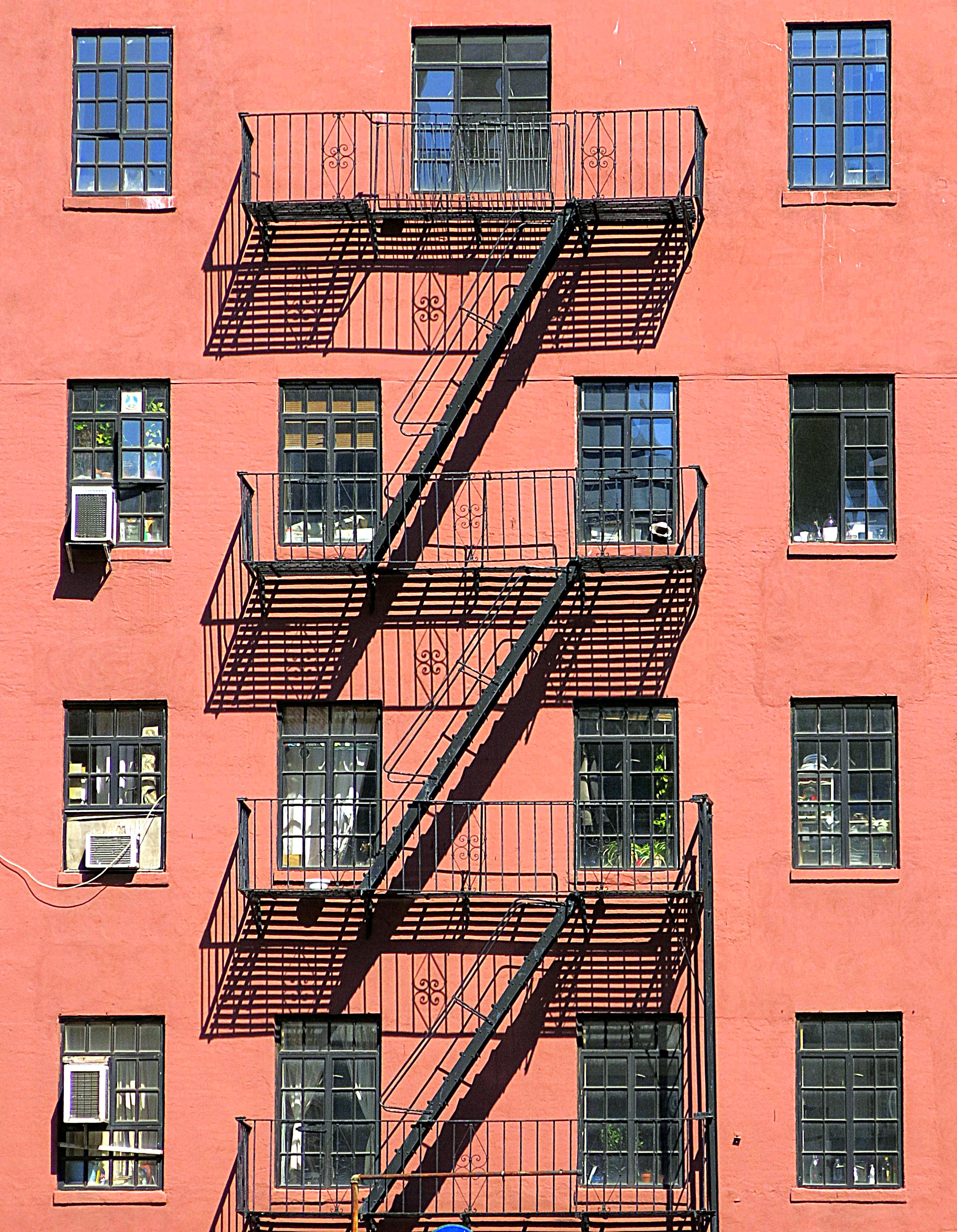 Fire escape, West 10th Street, Greenwich Village, New York City